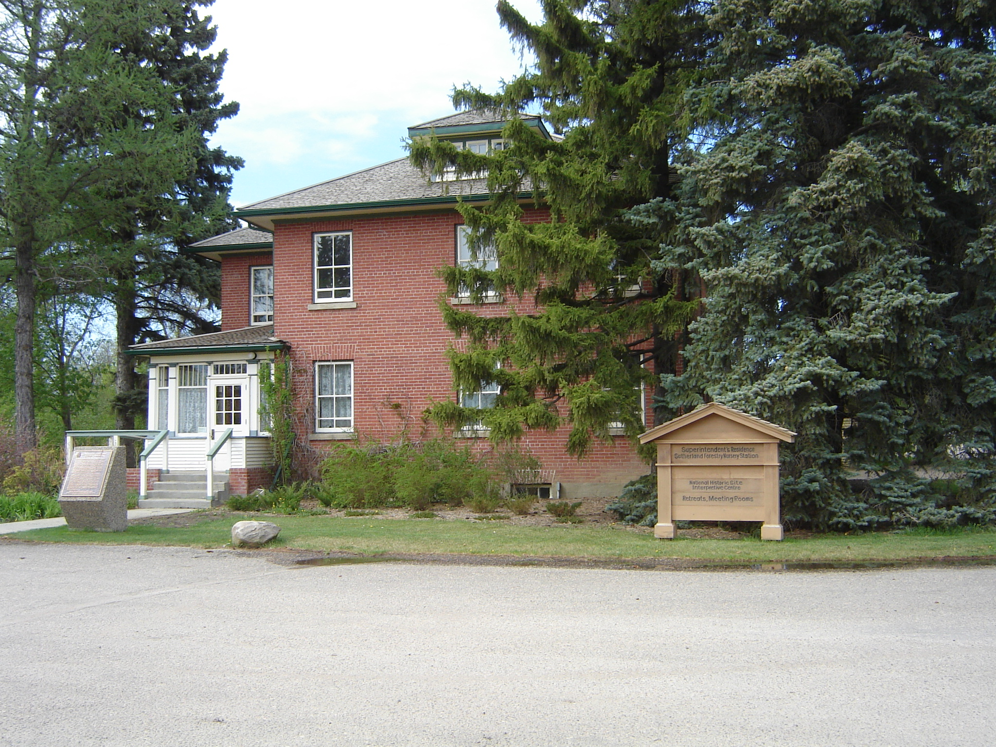 Superintendent's Residence, Sutherland Forestry Nursing Station: Forestry Farm House Forestry Farm Park and Zoo Saskatoon Saskatchewan Canada